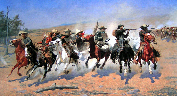 A Dash for Timber by Frederic Remington. 1889. (Oil Painting)